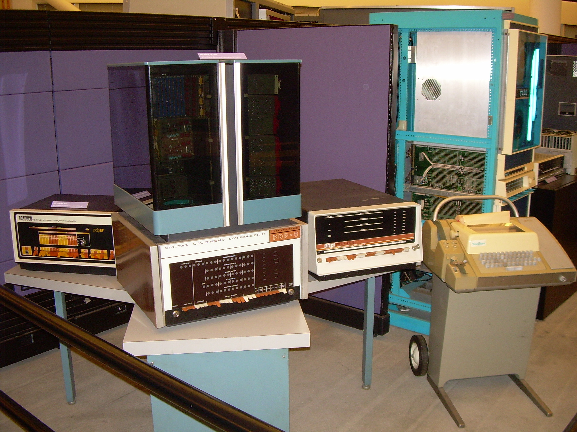 DEC PDP-8 family - PDP-8/F (1972), PDP-8 (1965), PDP-8/S (c.1966) - and Teletype ASR-33 (1964) on the side of Data General Eclips (1974) & Nova (1969) - Computer Museum (2007-11-10 23.08.07 by Carlo Nardone)